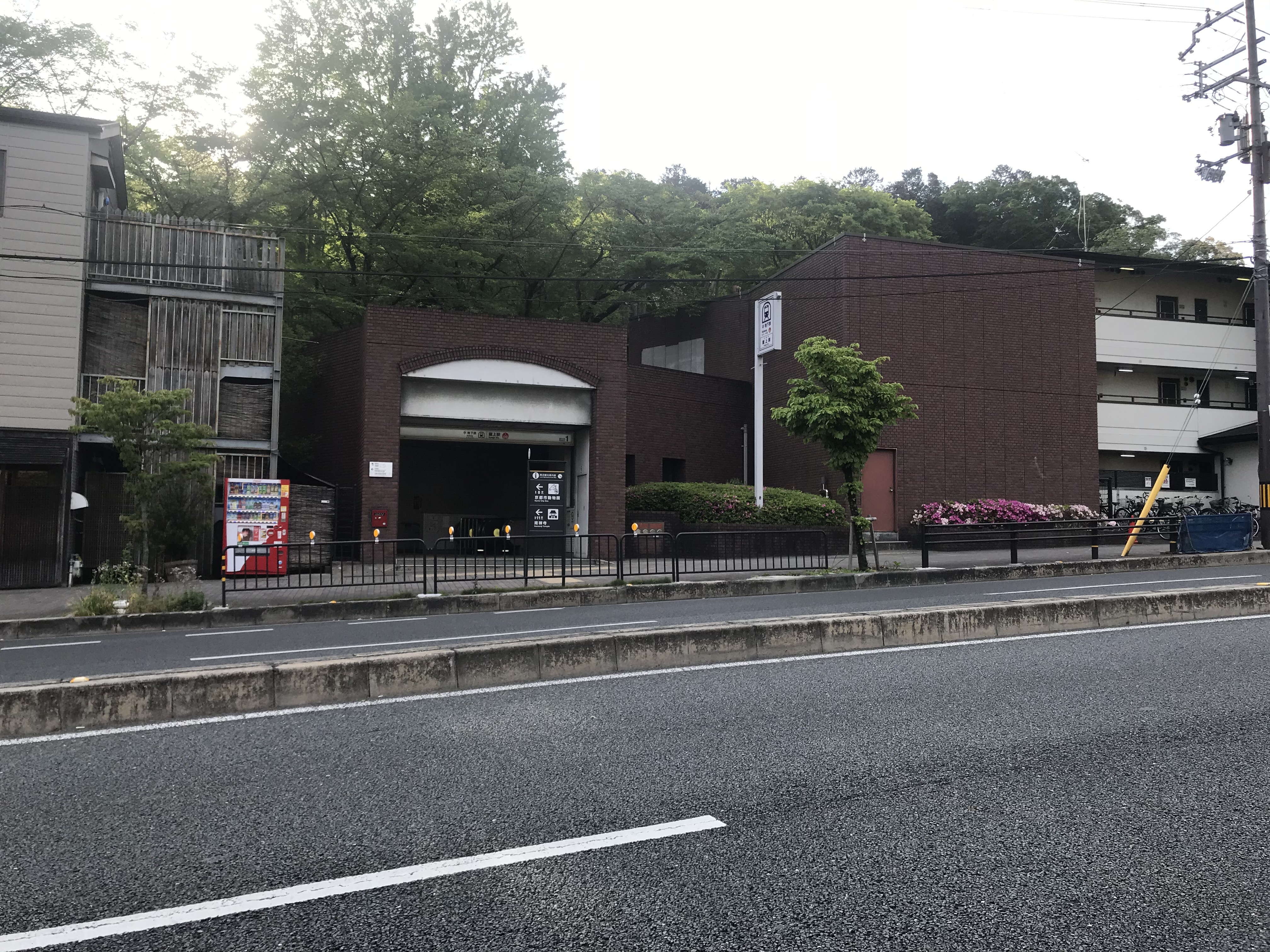 Kyoto subway Tozai line Keage station No. 1 exit